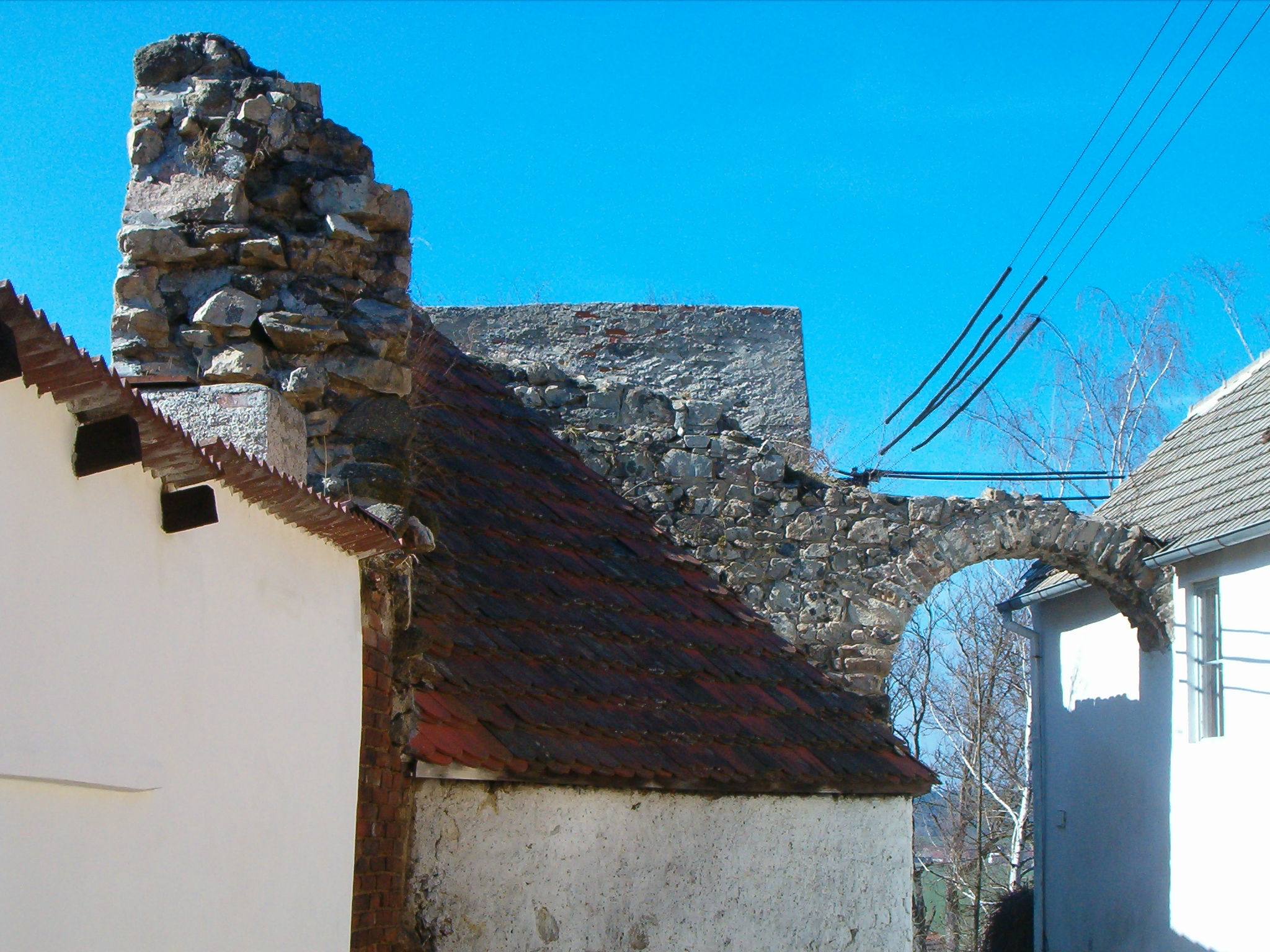 Ruin of castle in Myšenec village, South Bohemia